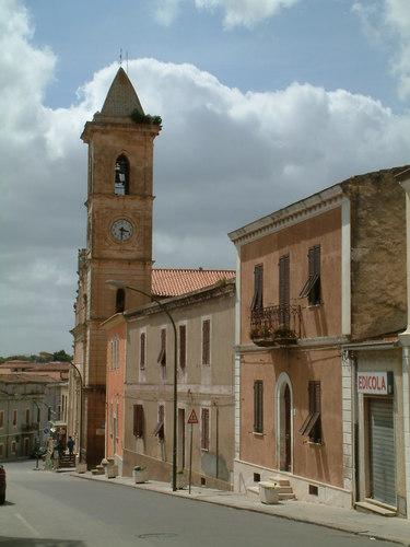 Usini, via Roma